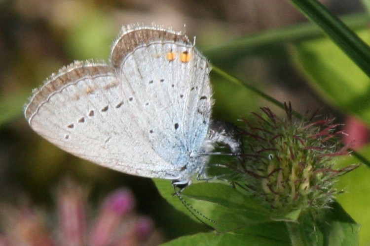 A female short-tailed blue butterfly (Cupido argiades), photographed in Weinsberg